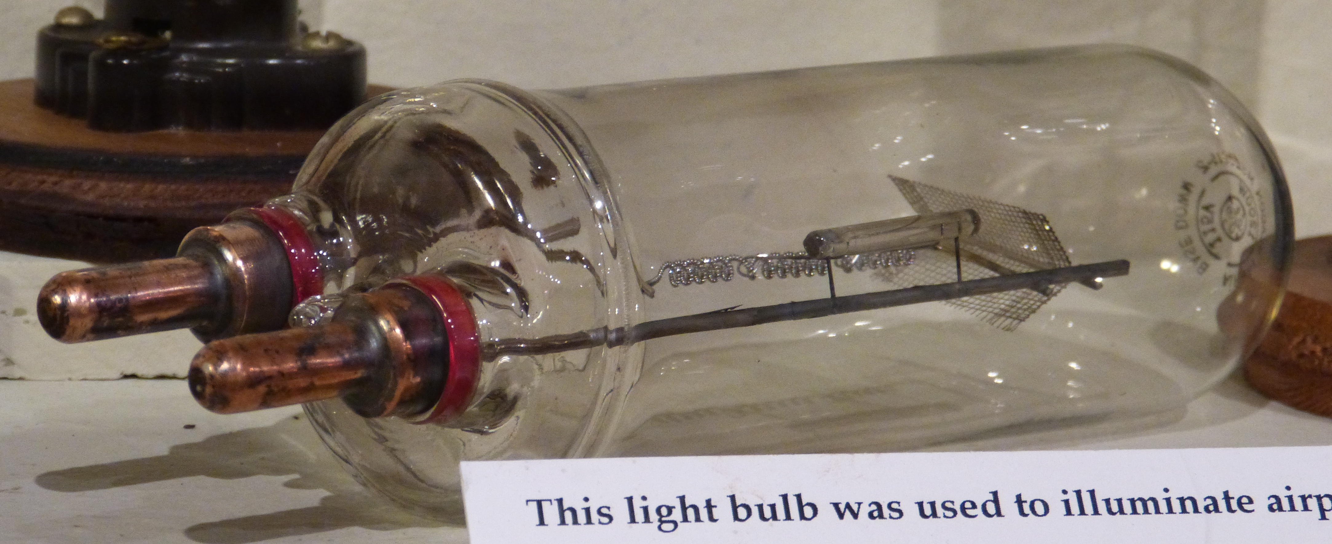 A photo of a General Electric MS25015-2 1200 watt 115 volt airway beacon light bulb, viewed from the left. This bulb has a Mogul bi-post base and has also been identified with the identifier 1200T20-115V. The photo was taken during a visit to the Museum of American Heritage where the light bulb was on display.